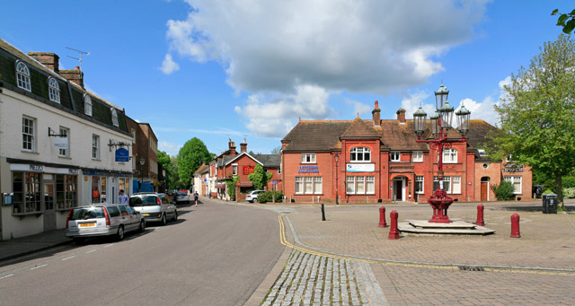 Market Place, Ringwood. Looking towards West Street. The brick building centre right, and the brick offices glimpsed centre left are both occupied by long standing firms of Ringwood solicitors. Occupants of the other shops visible are more recent.